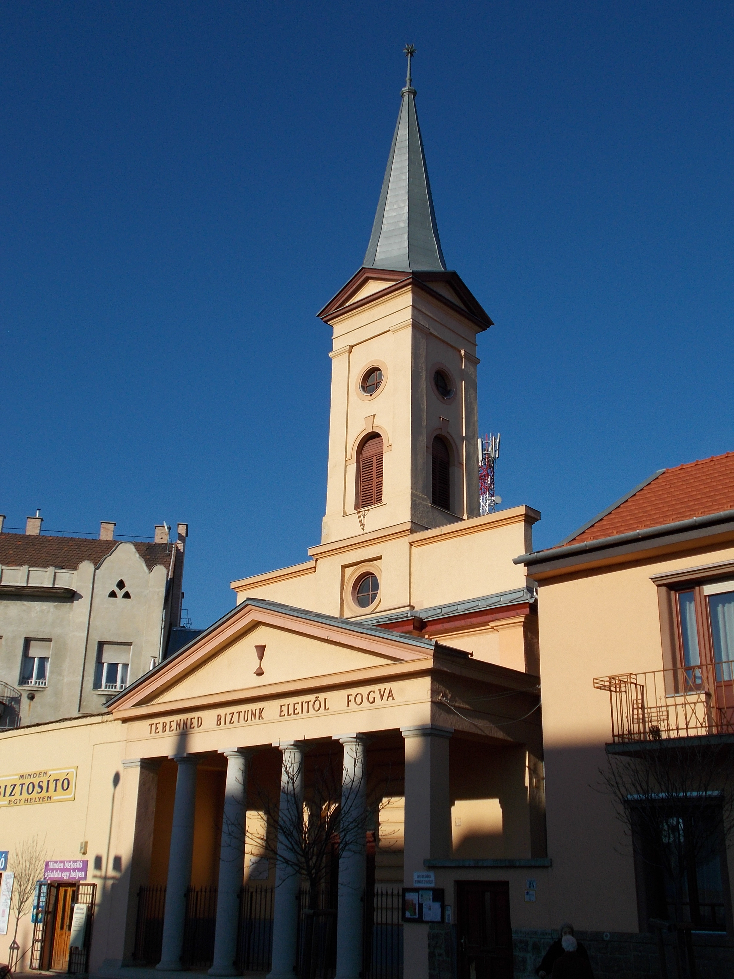 Újpest-Belsőváros Reformed Church